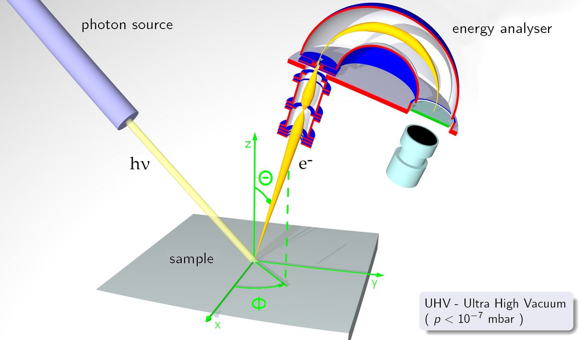 general principle of ARPES with description, based on File:PES3.jpg